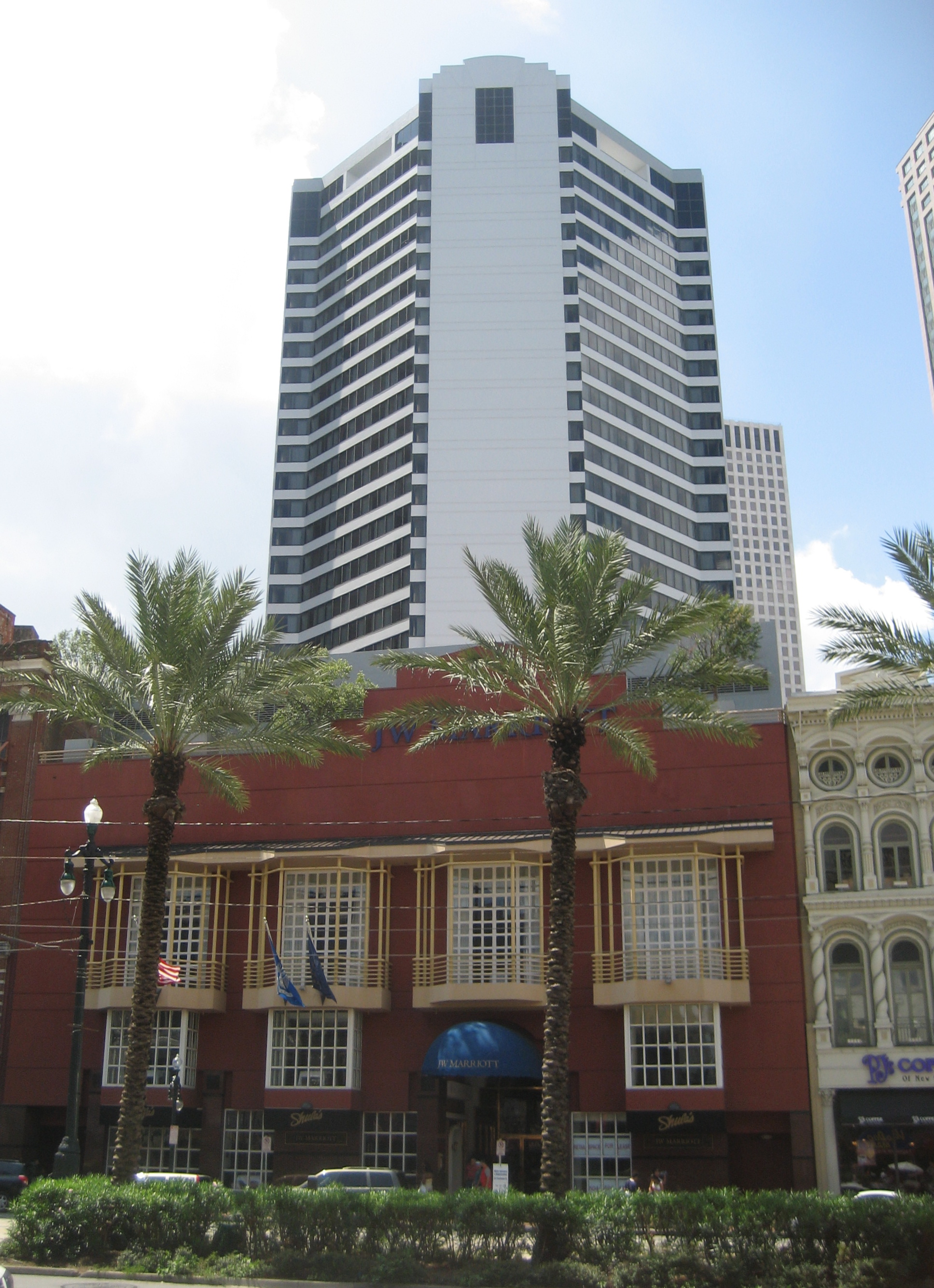 JW Marriott Hotel New Orleans seen from across Canal Street.